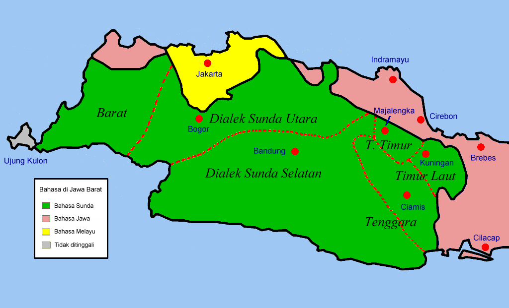 Linguistic map of West Java